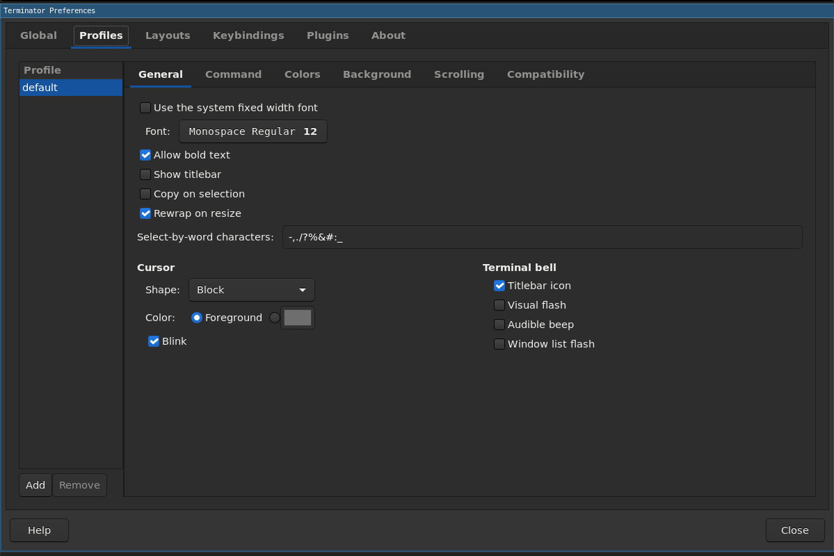 Here we can change for example font size